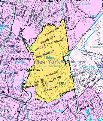 Zip Code map of '10804' in New Rochelle, New York.